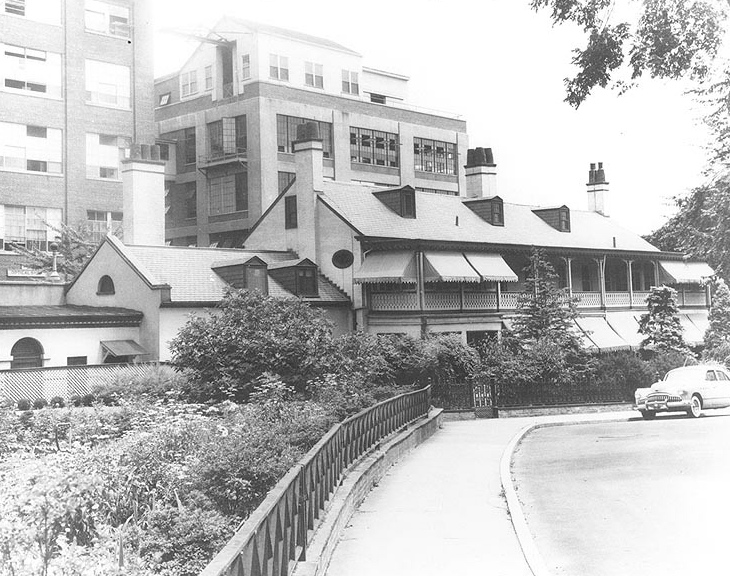 Quarters B, Washington Navy Yard on the NRHP since August 14. At 1973 Charles Morris Ave., SE, Navy Yard, Washington, DC. From Naval photographer, via the Naval History Museum